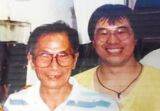 Ip Chun with disciple Felix Leong of Adelaide, Australia